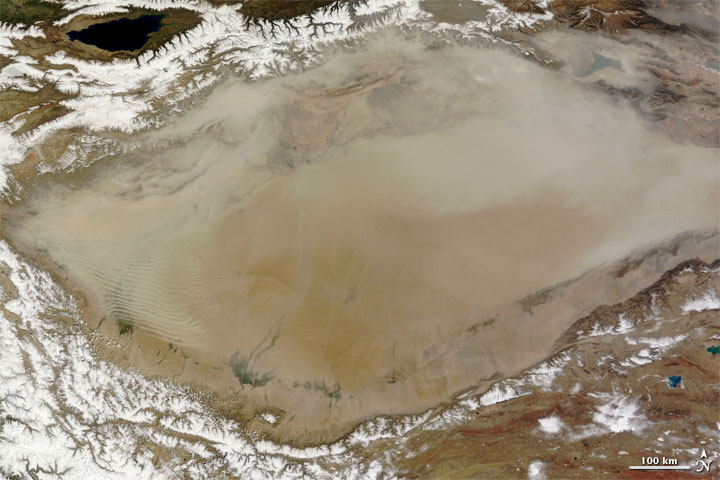 Dust ringed the Taklimakan Desert of northwestern China on April 25, 2010. The light-colored dust is mostly smooth, though waves ripple the surface in the southwest, reflecting turbulence in the air. The low dust also conforms to the shape of the land in the northwest. Squiggly lines in the dust cloud are the clear peaks of the foothills of the Tien Shan mountains, which form the northern edge of the Tarim Basin. Some of the dust appears to be blowing east, perhaps continuing an extensive dust storm from the previous day. The Moderate Resolution Imaging Spectroradiometer (MODIS) on NASA’s Terra satellite captured this image on April 25, 2010.